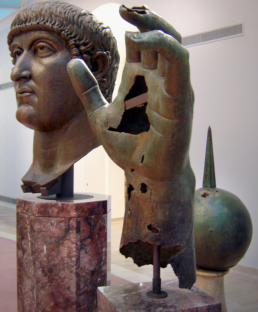 Head of Emperor Constantine I, part of a colossal statue. Bronze, Roman artwork, 4th century CE, Musei Capitolini, Rome. Formerly at the Lateran Palace; gift of Sixtus IV, 1471.